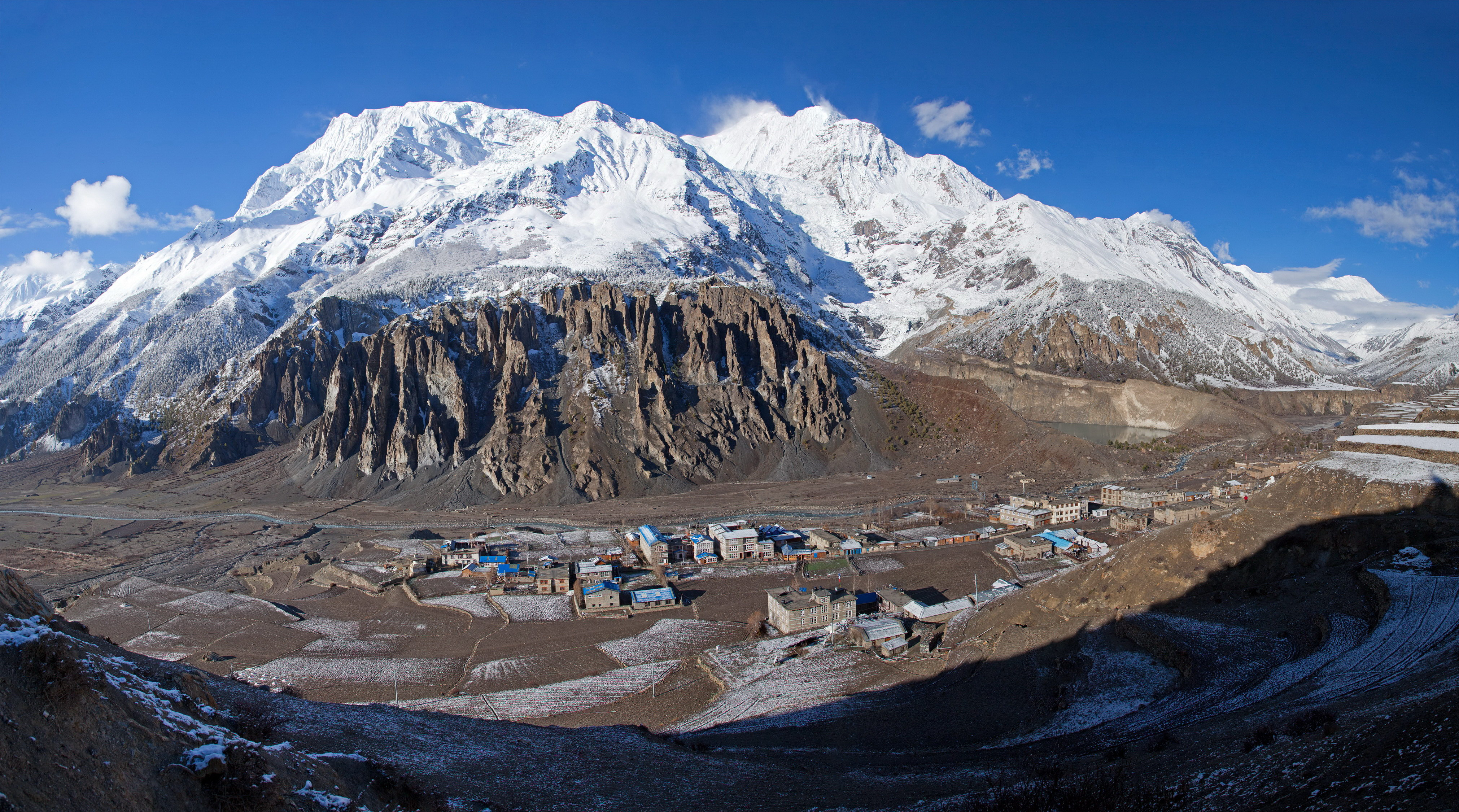 Manang village in Nepal. Annapurna-III (left, 7555 m) and Gangapurna (7455 m) peaks are on the background.